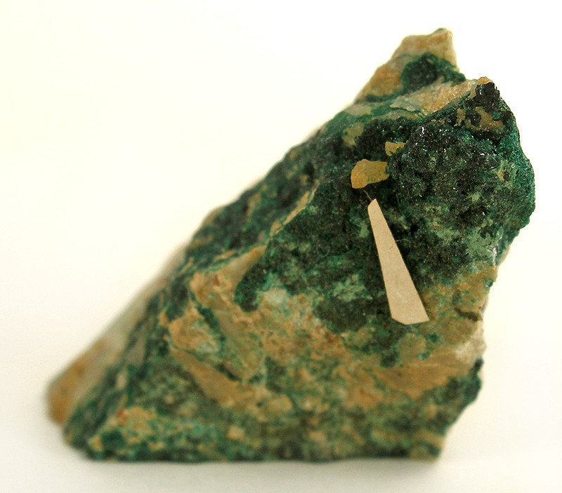 Antlerite, Marshite Locality: Chuquicamata Mine, Chuquicamata District, Calama, El Loa Province, Antofagasta Region, Chile (Locality at ) Size: thumbnail, 3 x 1.8 x 1.6 cm Marshite with Antlerite A superb, sharp, eye-visible and easily seen, 2 mm crystal of this extremely rare copper iodide species sits perched on contrasting green antlerite. This crystal is gemmy, sharp, and easy to see. It is an excellent reference specimen of this, one of the more ultimate Chuquicamata rarities. Ex. John White Collection.